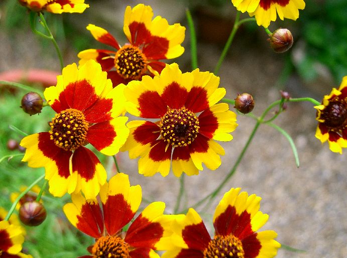 Coreopsis tinctoria